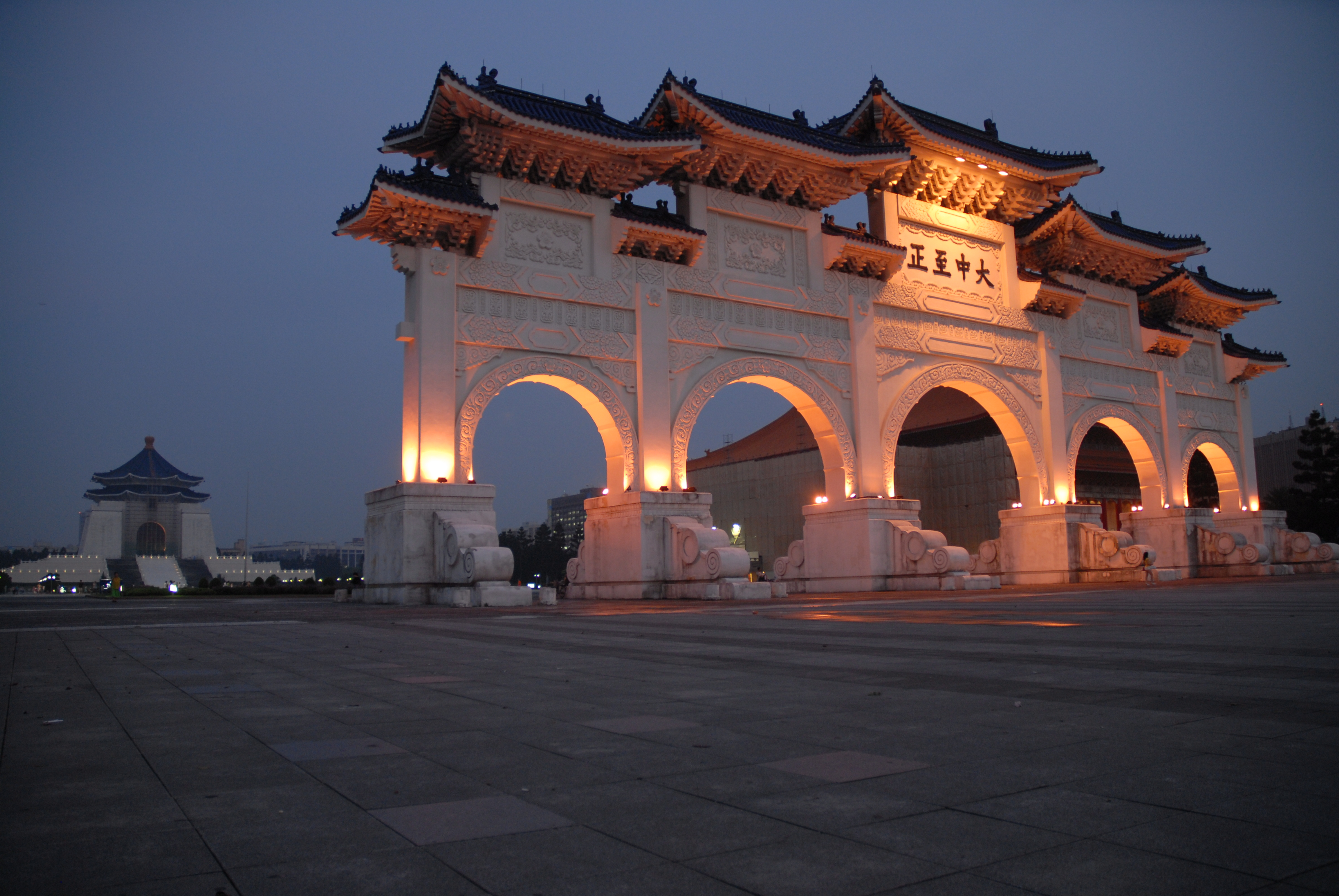 Chiang Kai-shek Memorial Hall's gate at night in Taipei, Taiwan, R.O.C..